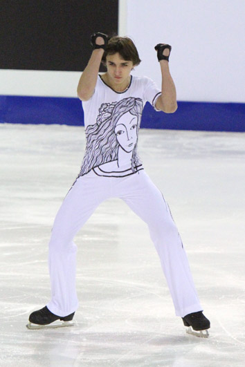 Artur Dmitriev Jr at the 2010 World Junior Figure Skating Championships